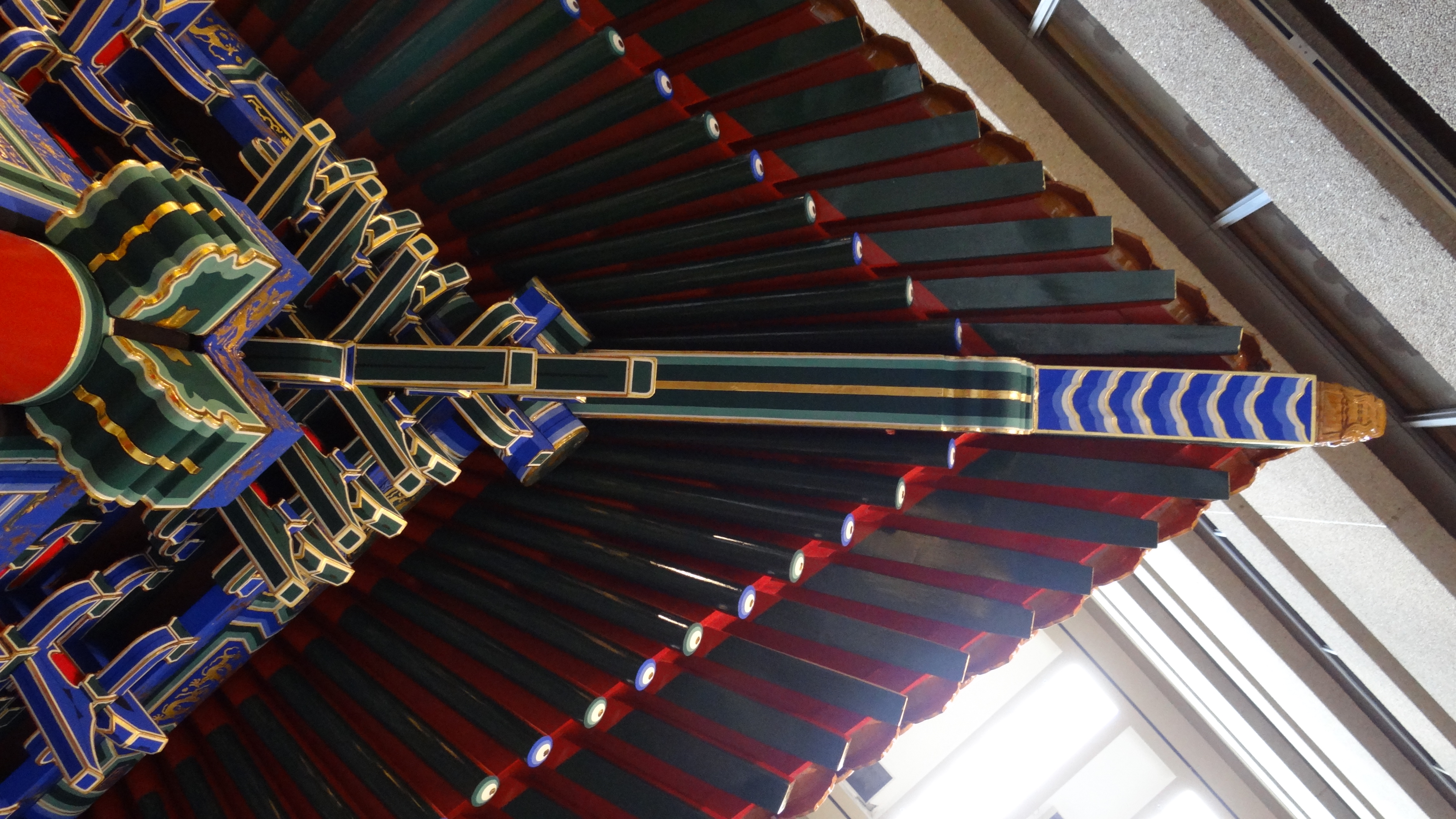 painted wood